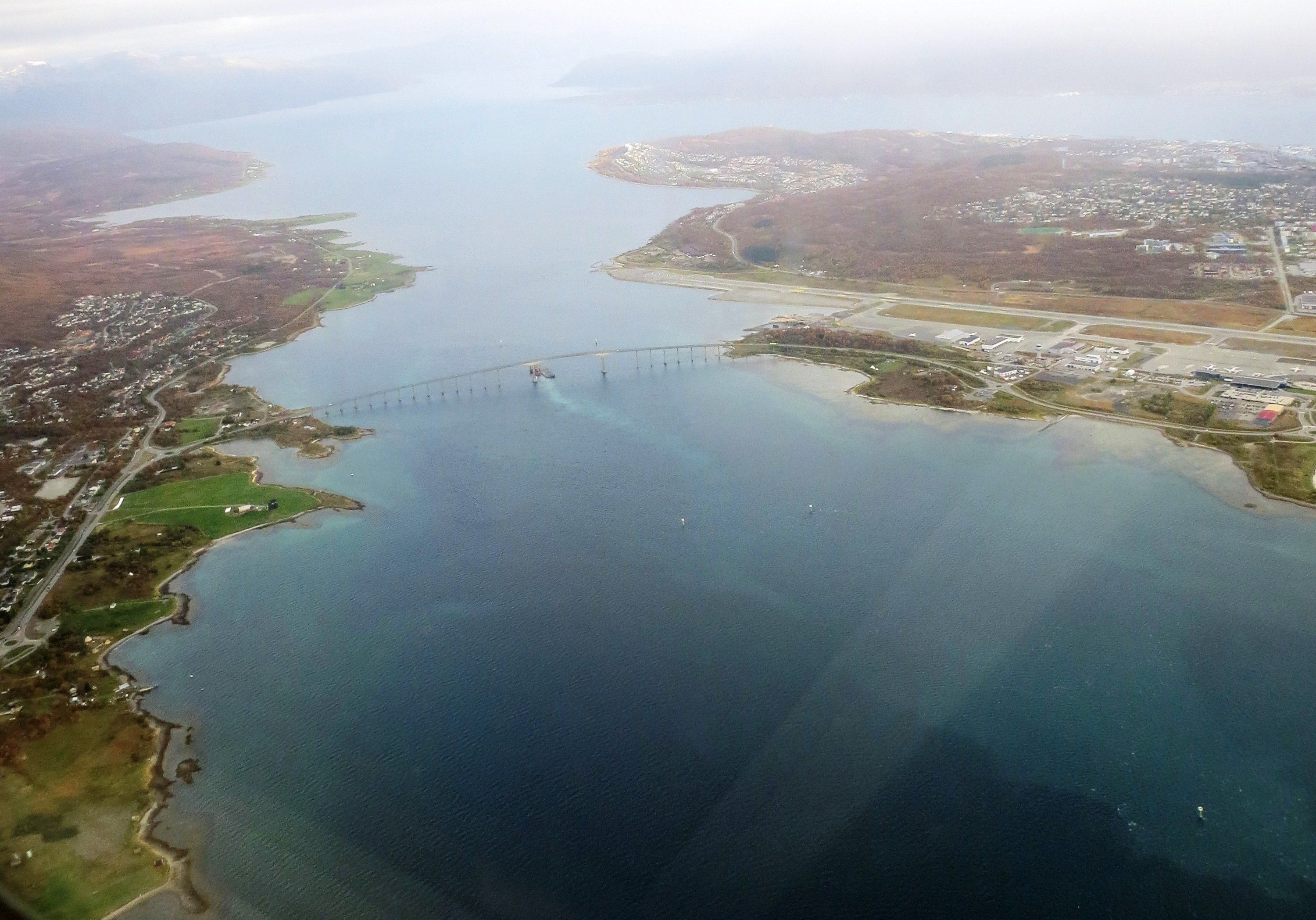 Aerial view of the Sannessundet straits, west of Tromsö island, northern Norway.